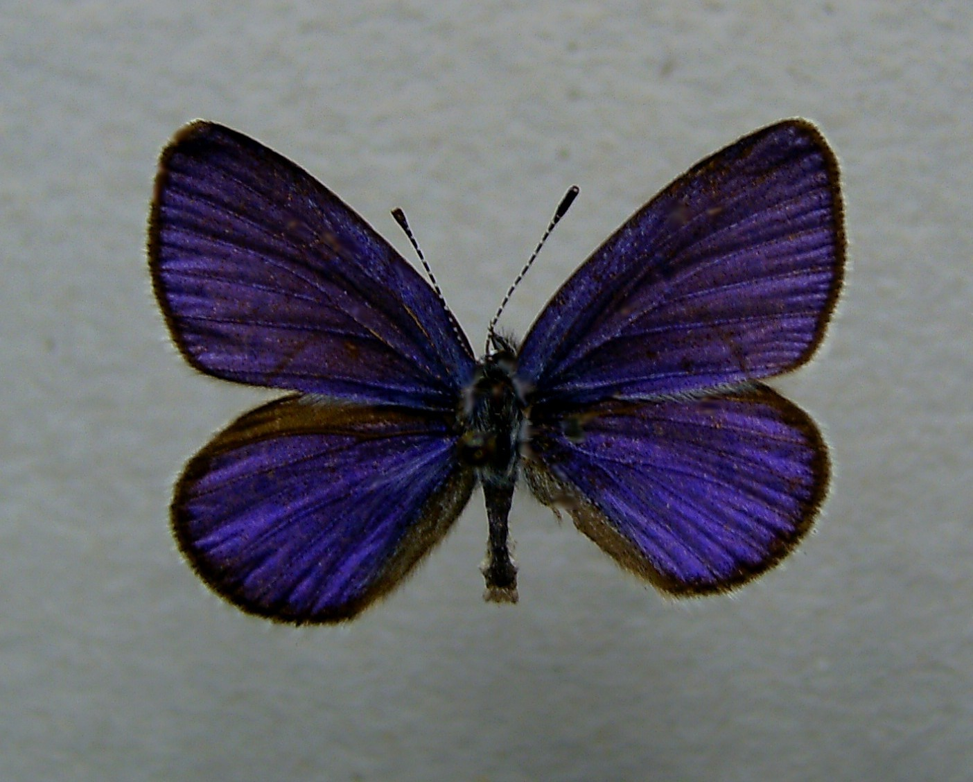 Plebeius optilete